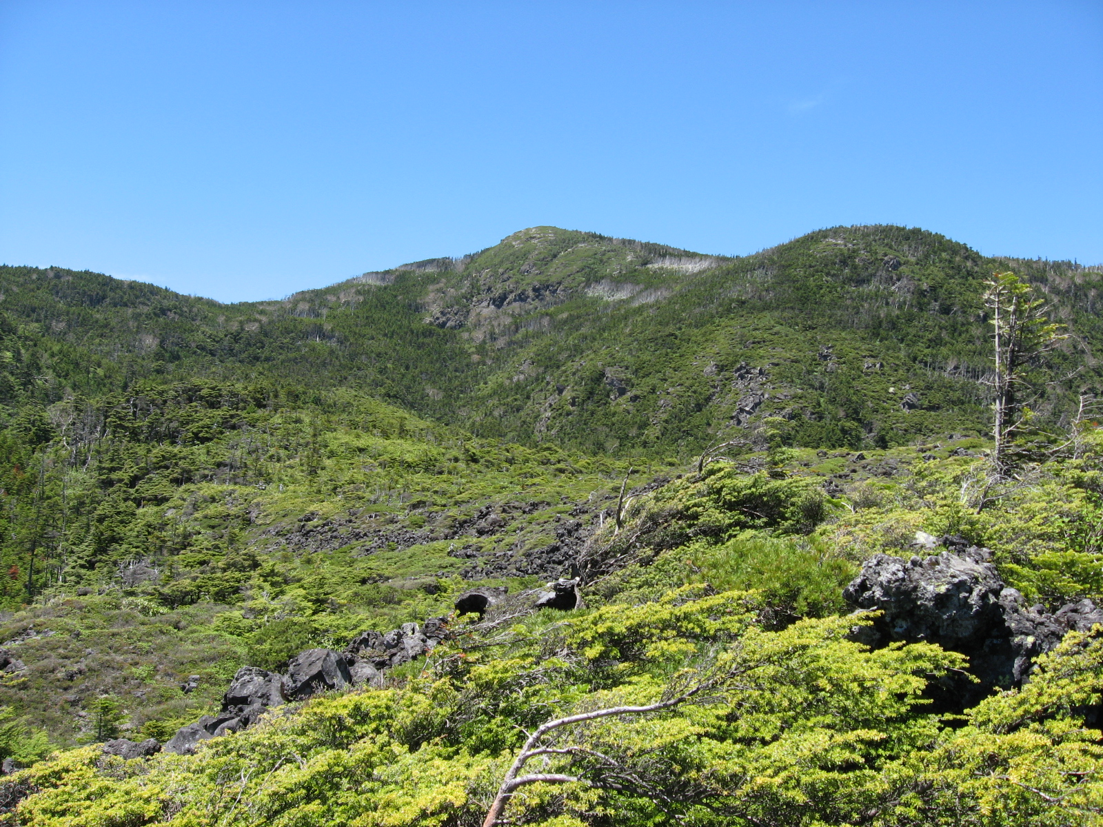 坪庭より仰ぐ北横岳 Light green shrubs in foreground are Tsuga diversifolia